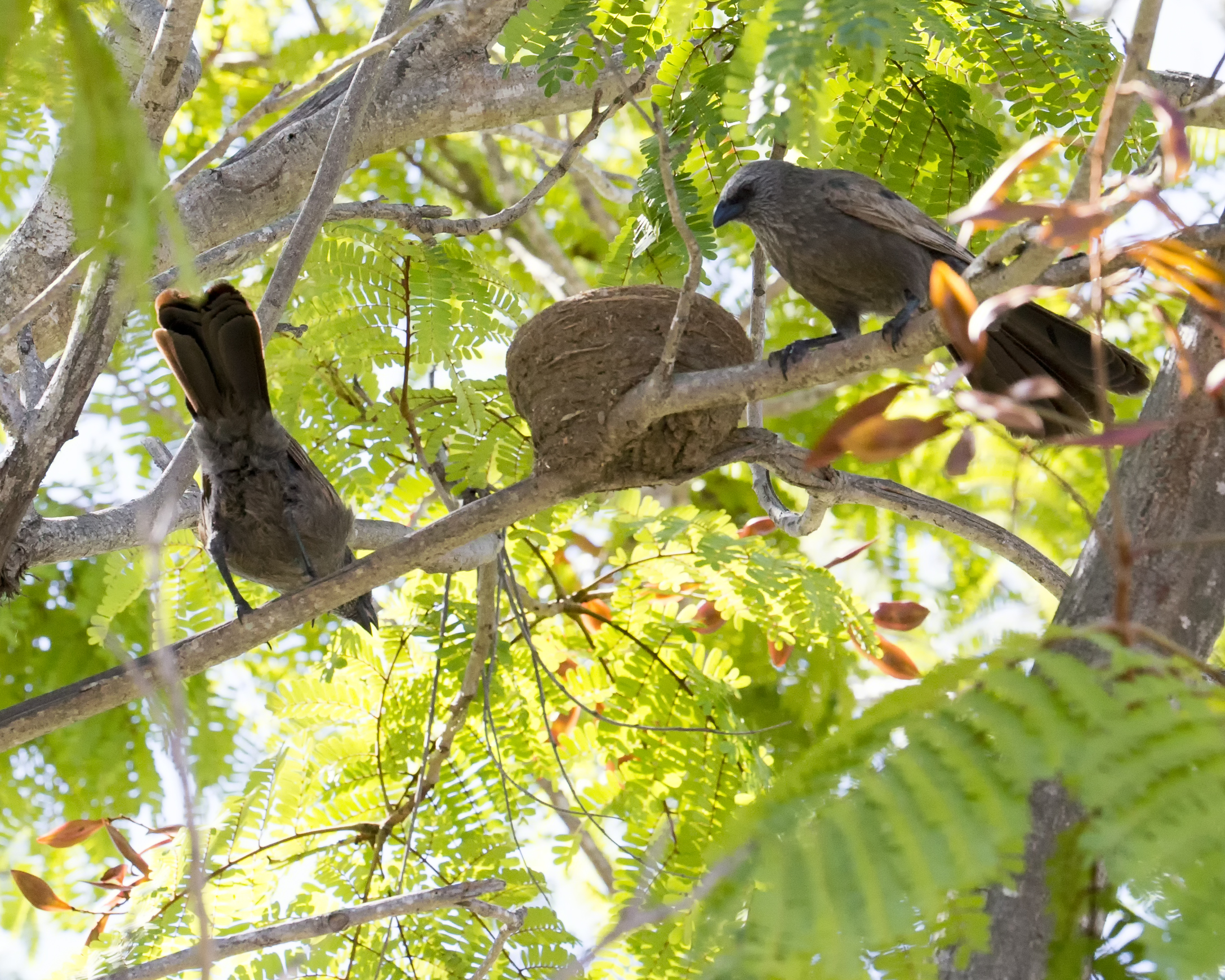 Apostle birds taking turns at sitting one the eggs. It looks like the matriarch lays the eggs, and the entire family takes turns at sitting, feeding etc. They changed over every 30 minutes or so